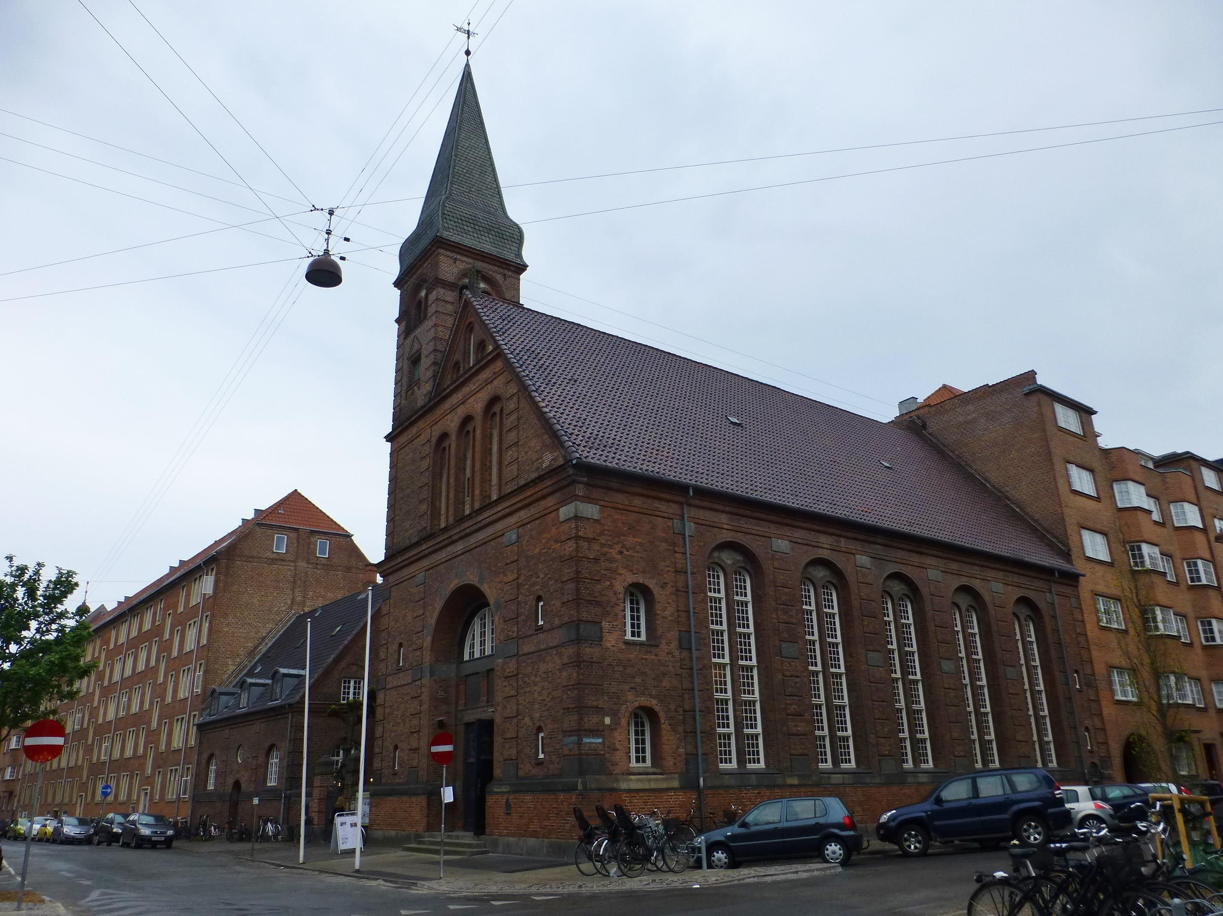 The church Frihavnskirken at the corner of Willemoesgade og Fiskedamsgade in Østerbro in Copenhagen.